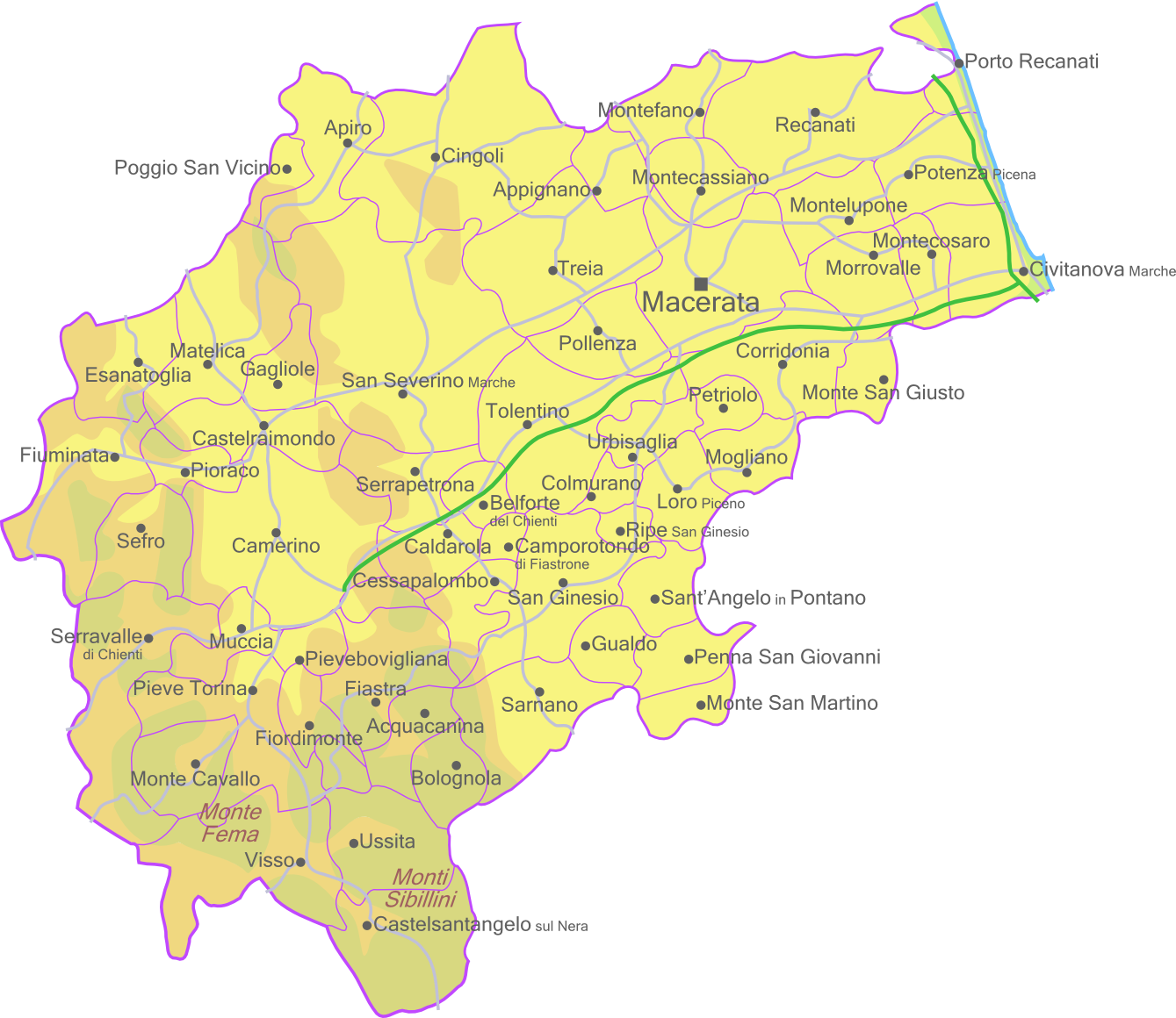 Map of the Province of Macerata, Italy